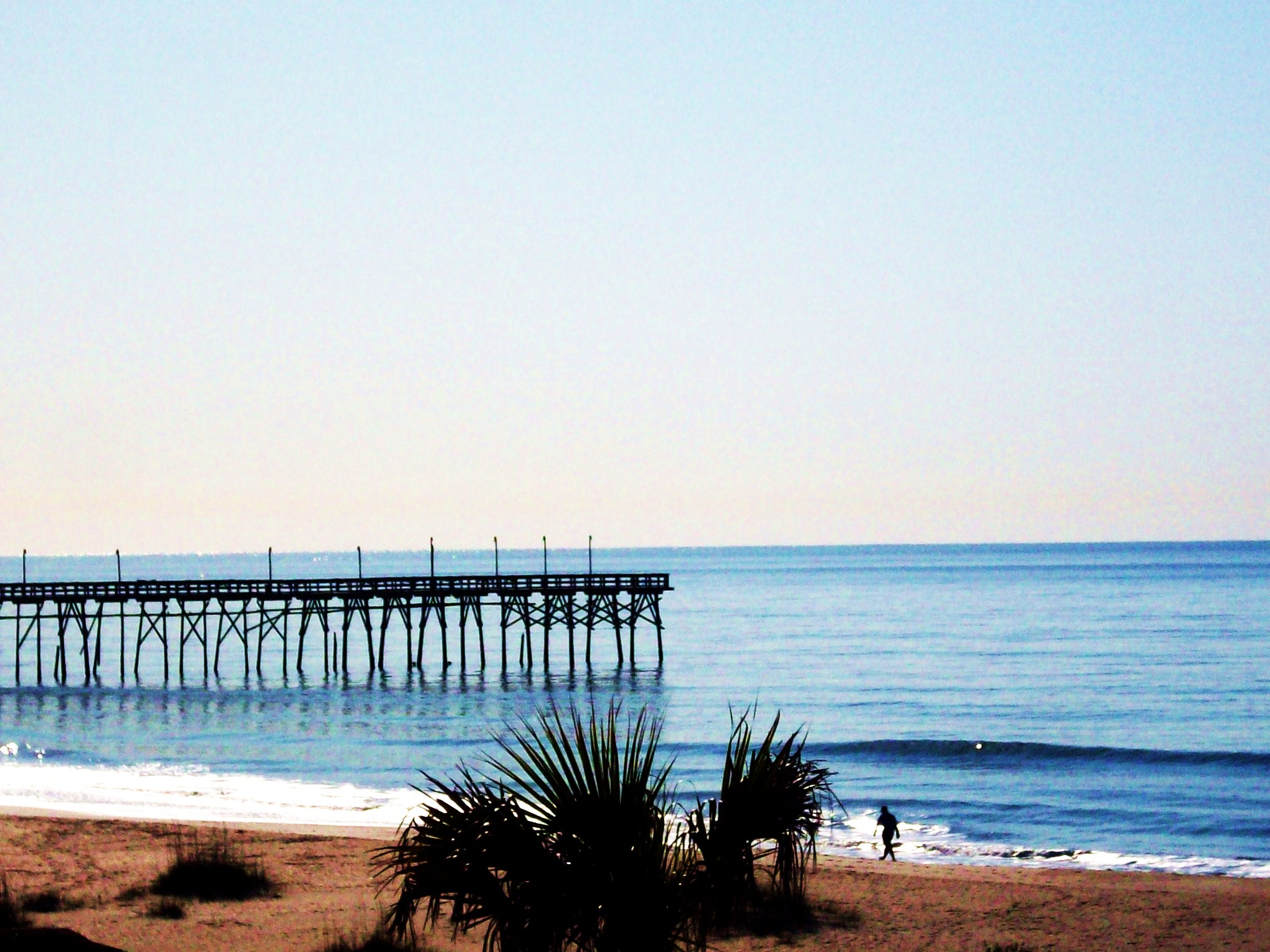 the pier at Ocean Isle Beach, North Carolina taken in April, 2008